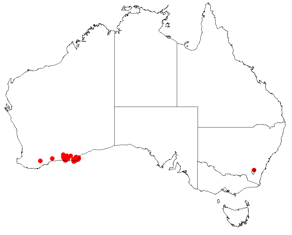 Hakea adnata Occurrence data downloaded from Australasian Virtual Herbarium on 22 November 2018 using